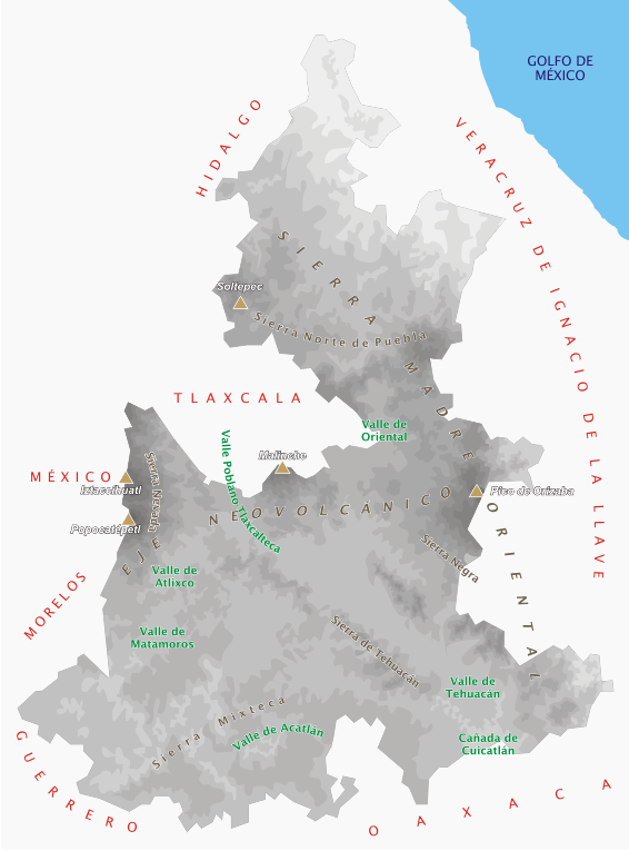 Mountain ranges in Puebla state. Includes the Sierra Madre Oriental and Trans-Mexican Volcanic Belt.